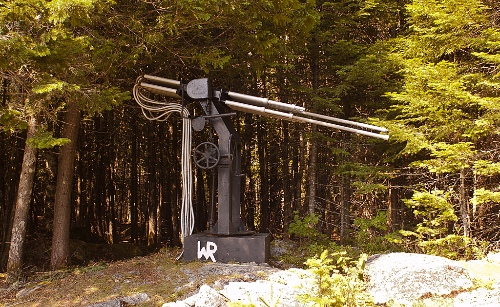 Surviving Cloudbuster device built by Wilhelm Reich located in Maine, United States